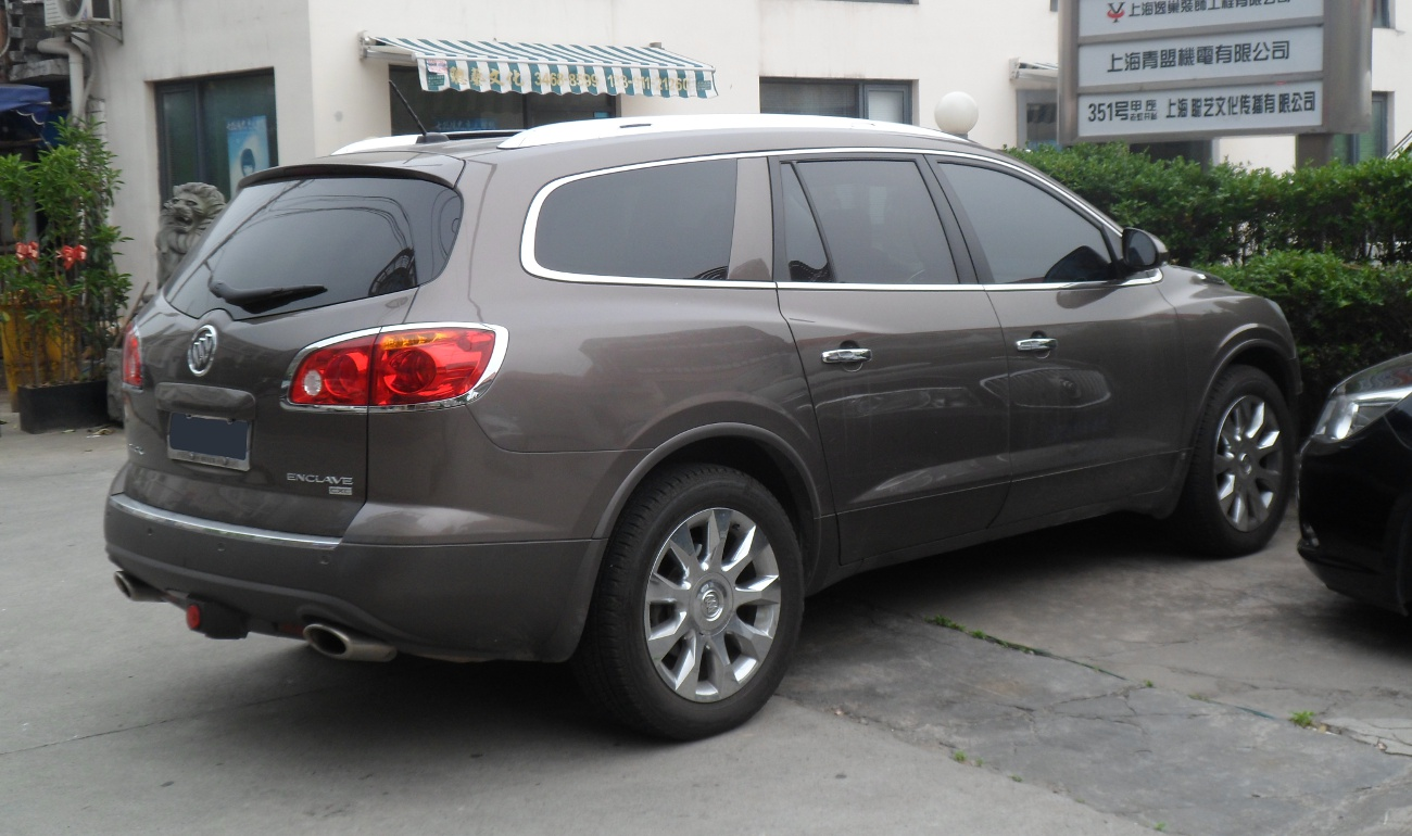 Buick Enclave photographed in Shanghai, China.